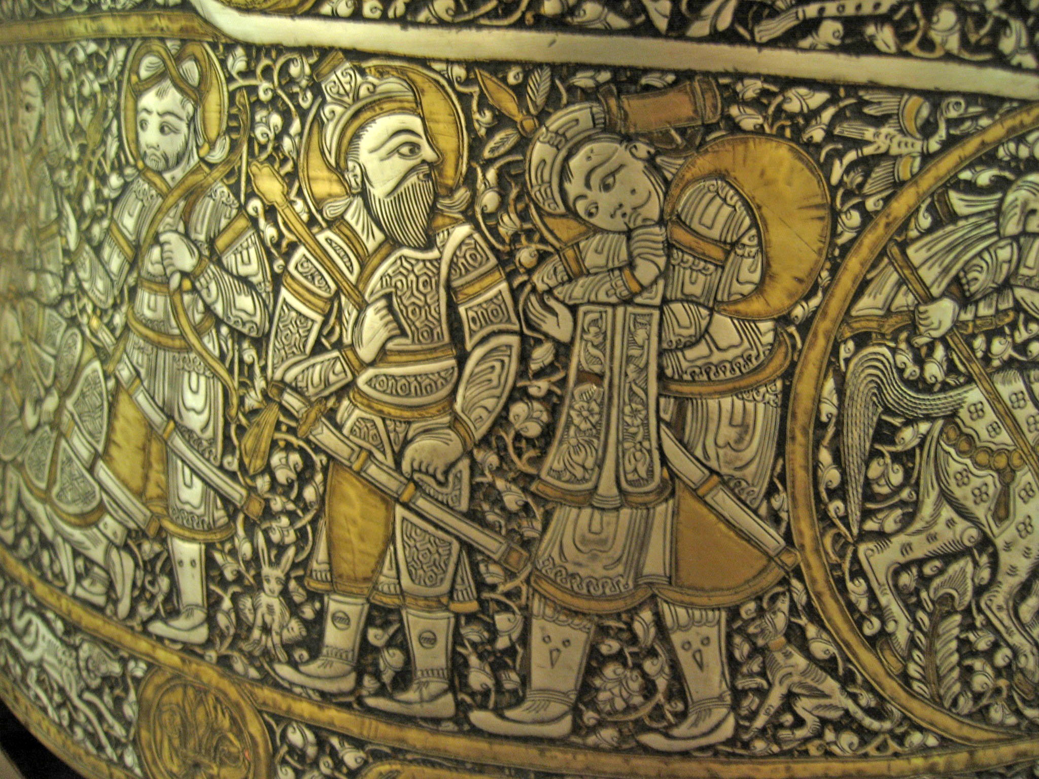 Basin with a procession of officials and four riders in roundels (exterior band); friezes of animals and coats-of-arms (interior band).